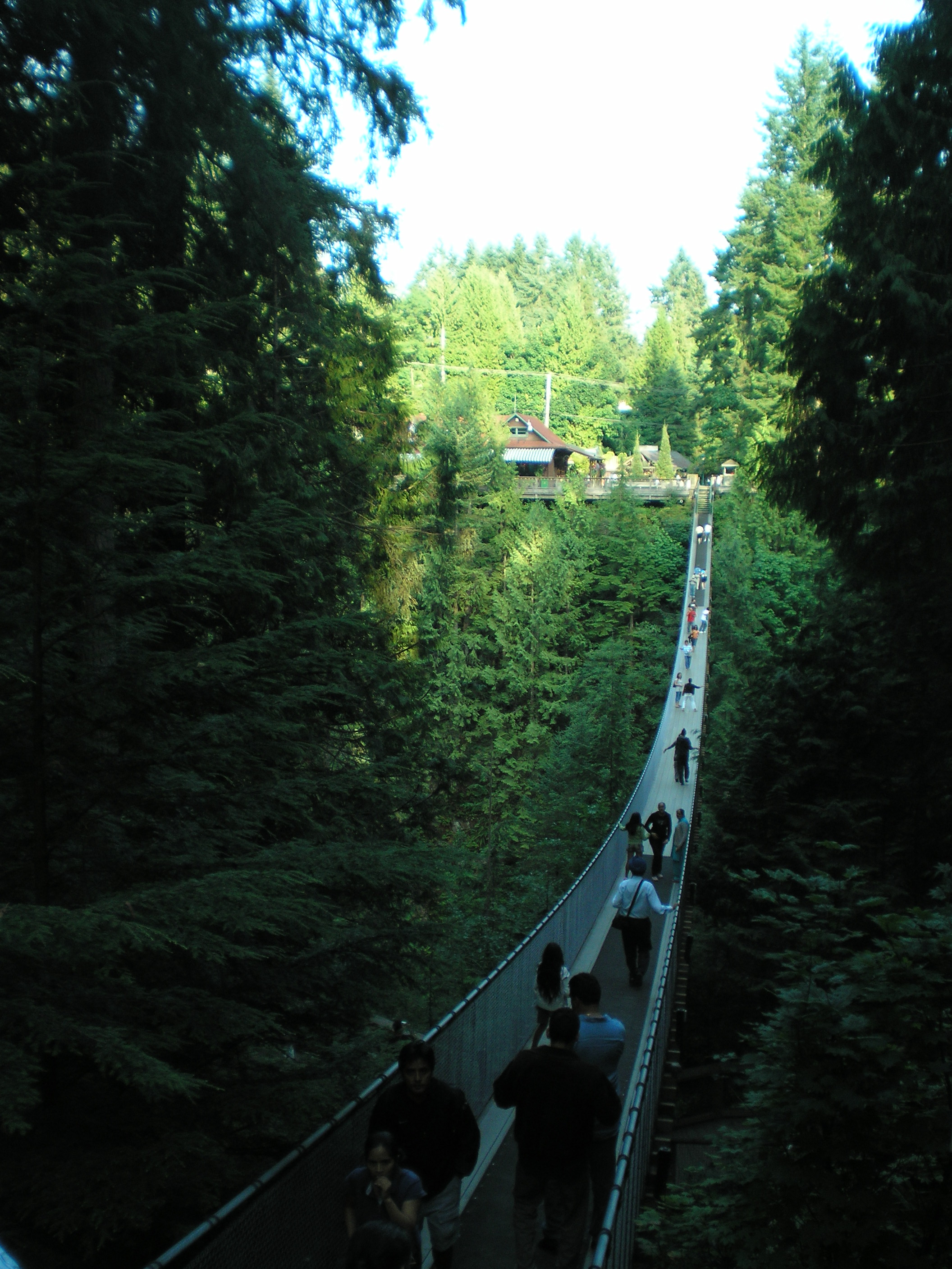 Capilano Suspension Bridge near Vancouver, Canada.